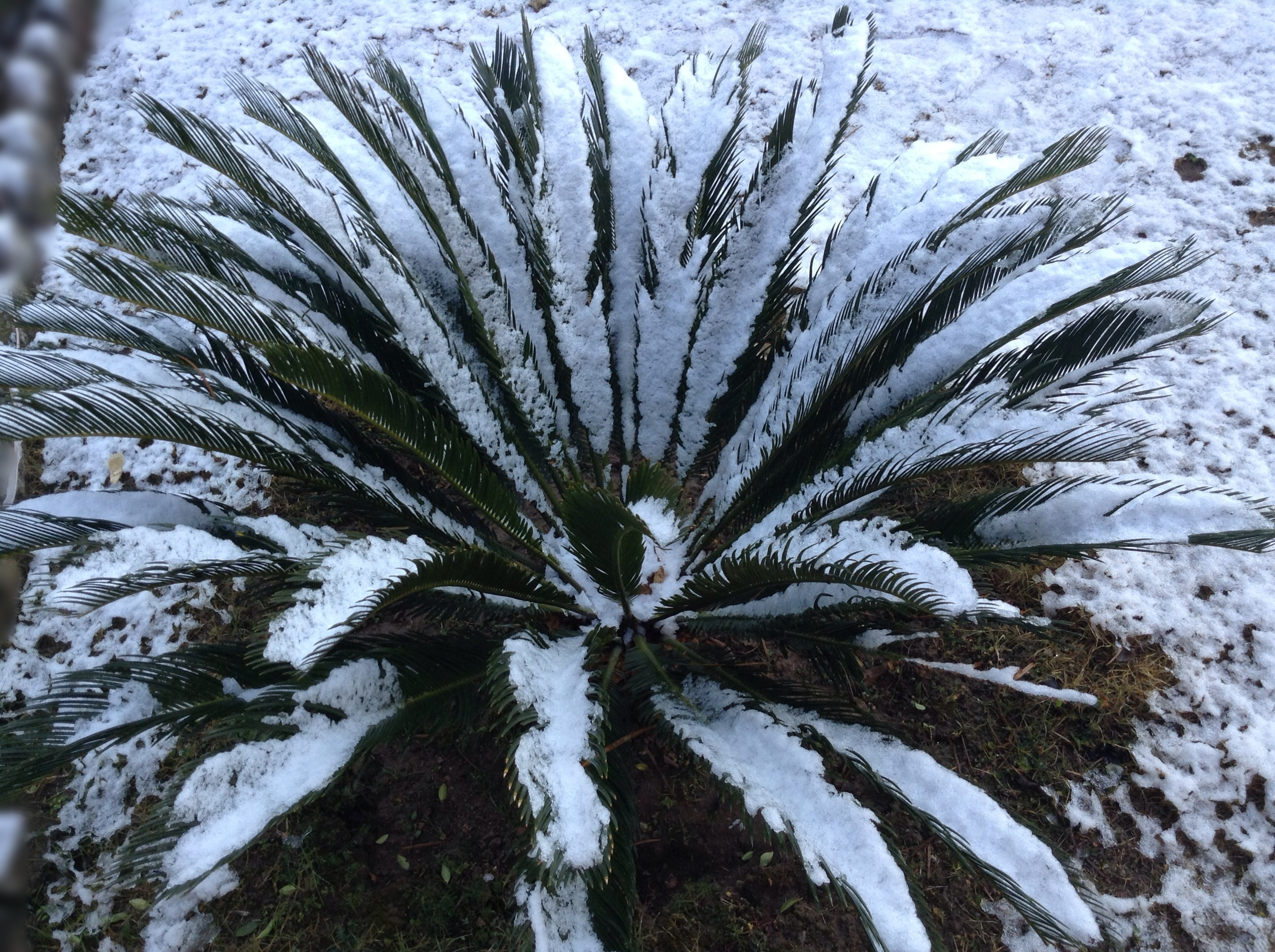 Cycas revoluta covered with snow. First snowfall of 2014 in Abbottabad.